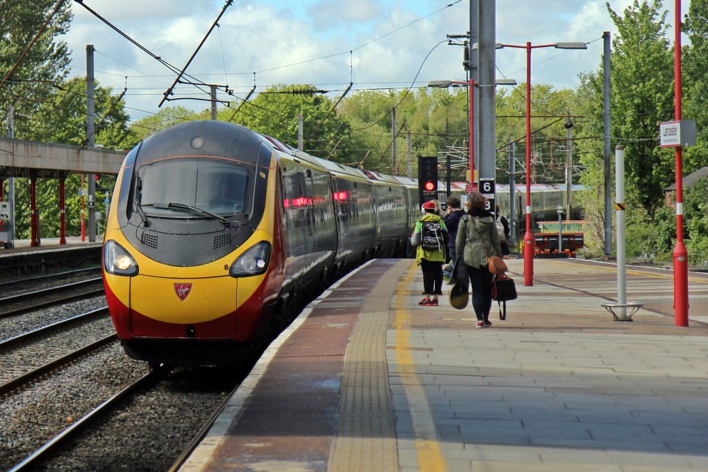 Virgin Class 390, 390121 "Virgin Dream", Lancaster railway station